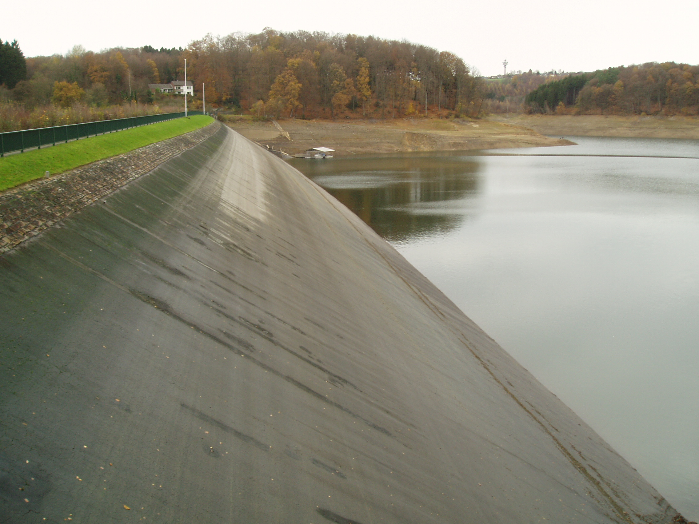 Photo of the dam of Wahnbach reservoir, Germany, picture taken at November 18th, 2006.